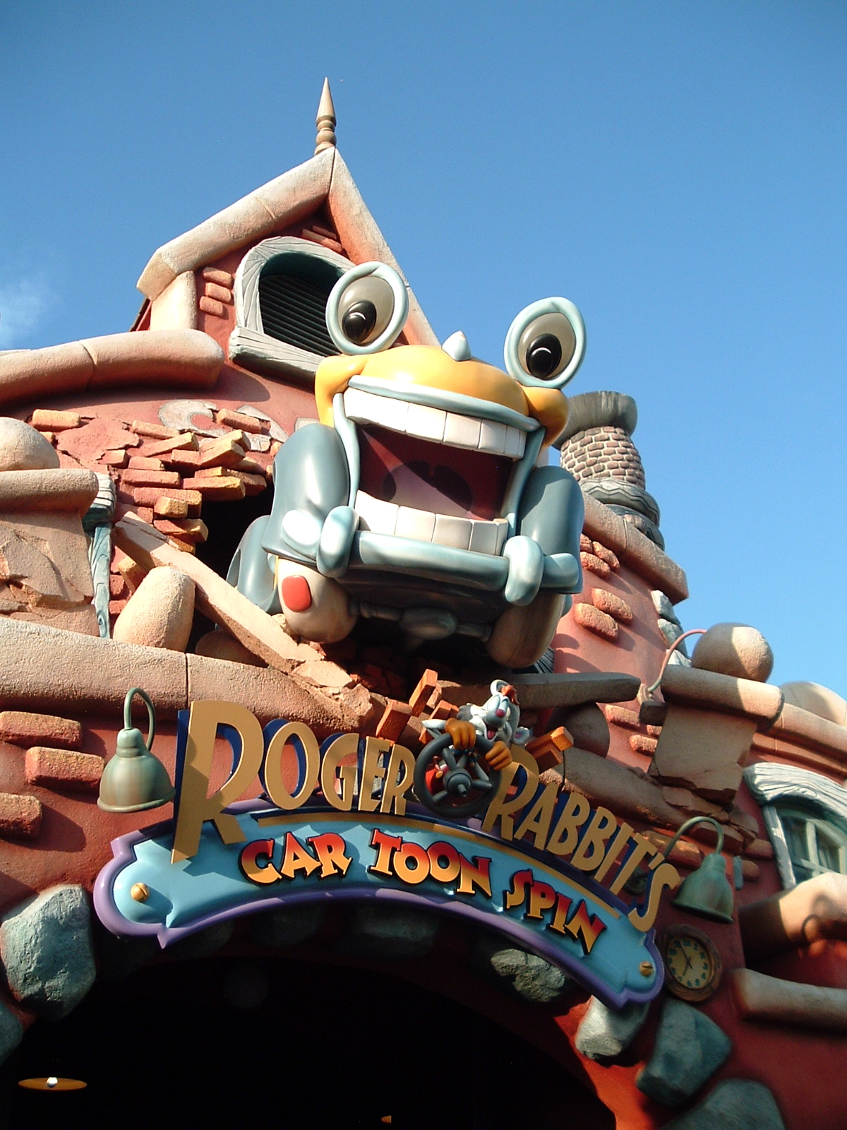 Entrance to Roger Rabbit's Car Toon Spin in Toontown